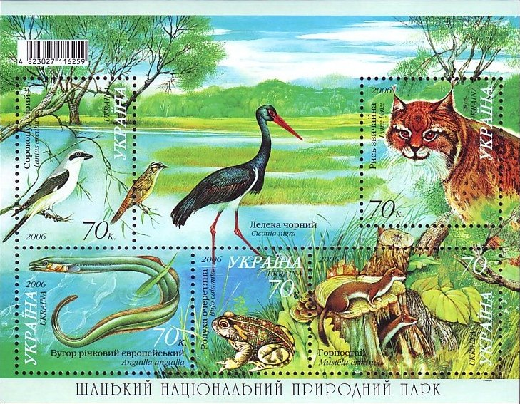 Stamp of Ukraine